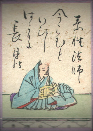 A portrait of Sosei Hōshi; illustration from an uta-garuta playing card for Hyakunin Isshu, created in the Edo period.